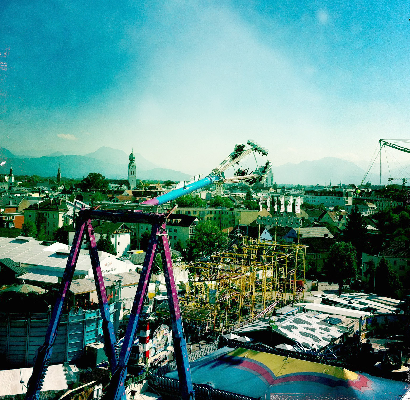 Herbstfest Rosenheim